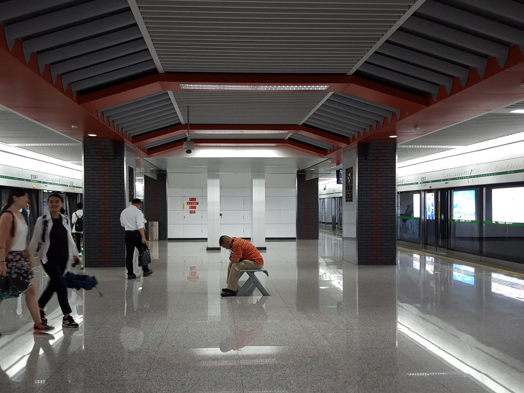 Platform of Kuanzhaixiangzi Alleys Station, Chengdu Metro